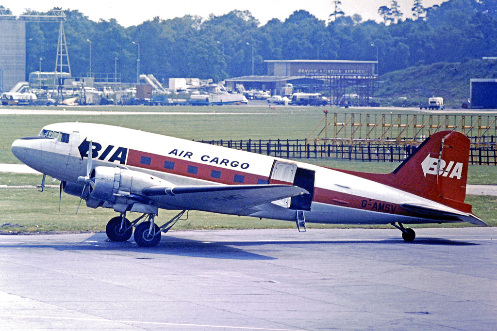 Douglas C-47B (DC-3) G-AMSV of British Island Airways Cargo at London Gatwick Airport in 1973